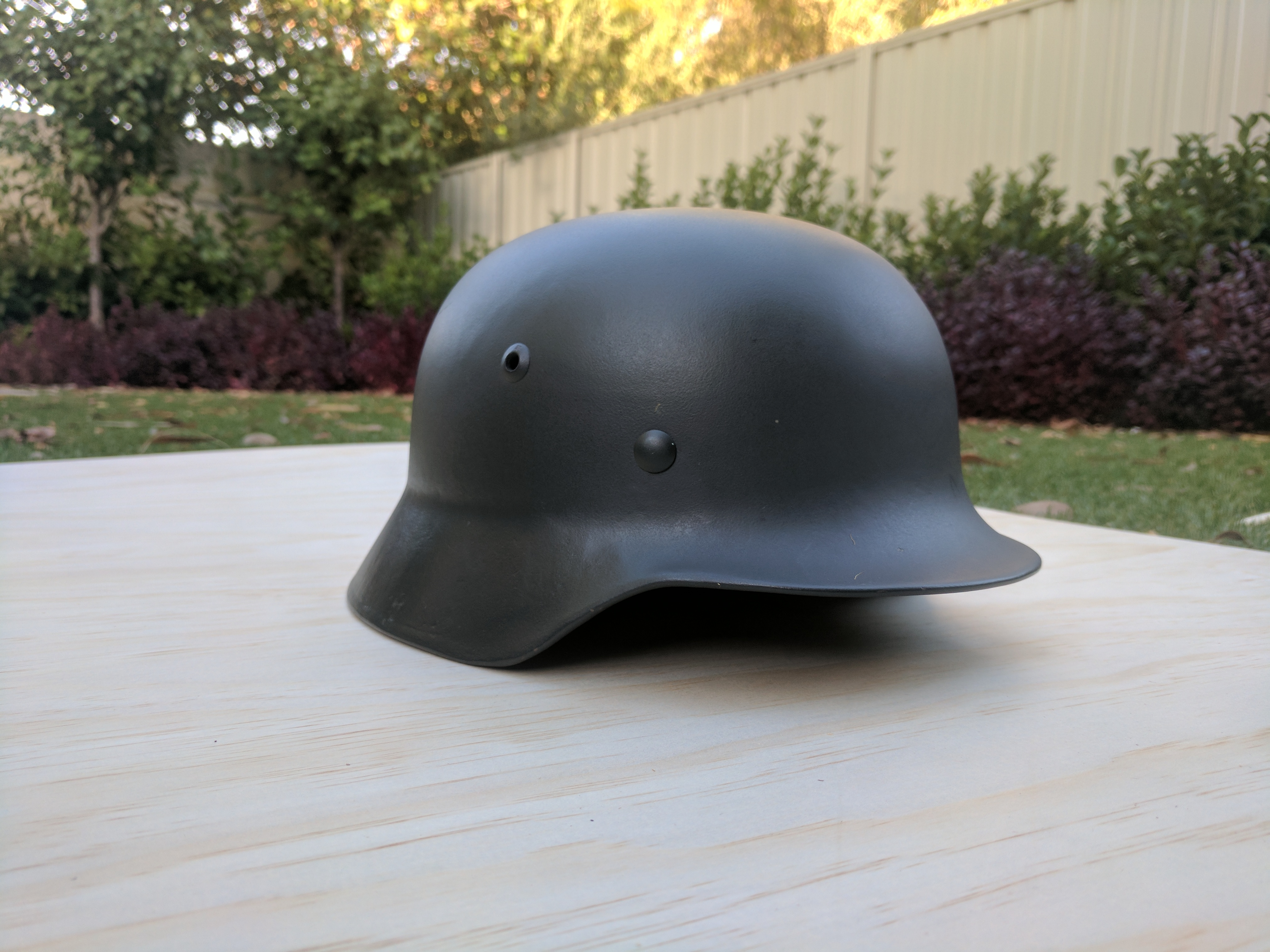 M35 helmet